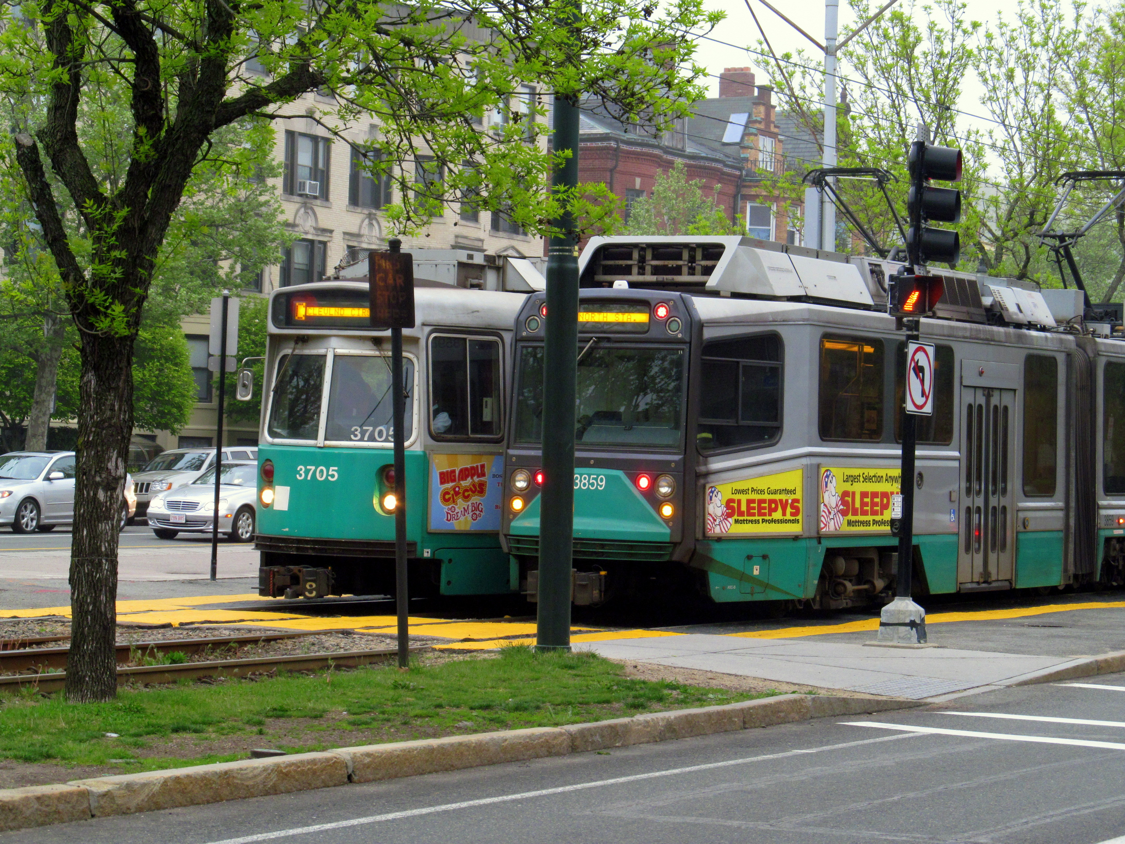 Inbound (right) and outbound trains at Tappan Street